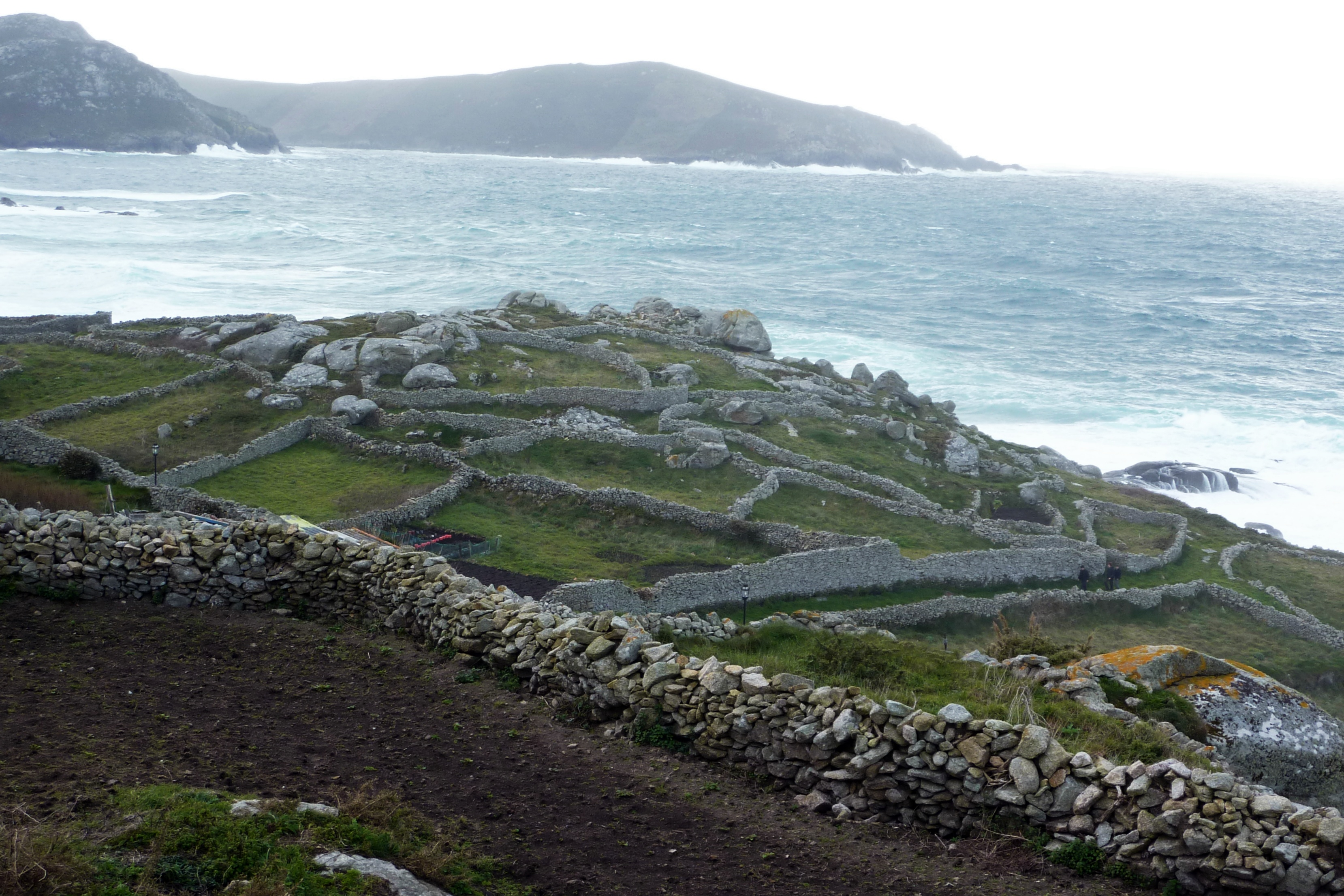 Walled 'leiras' of fields, in Muxia, Galicia.